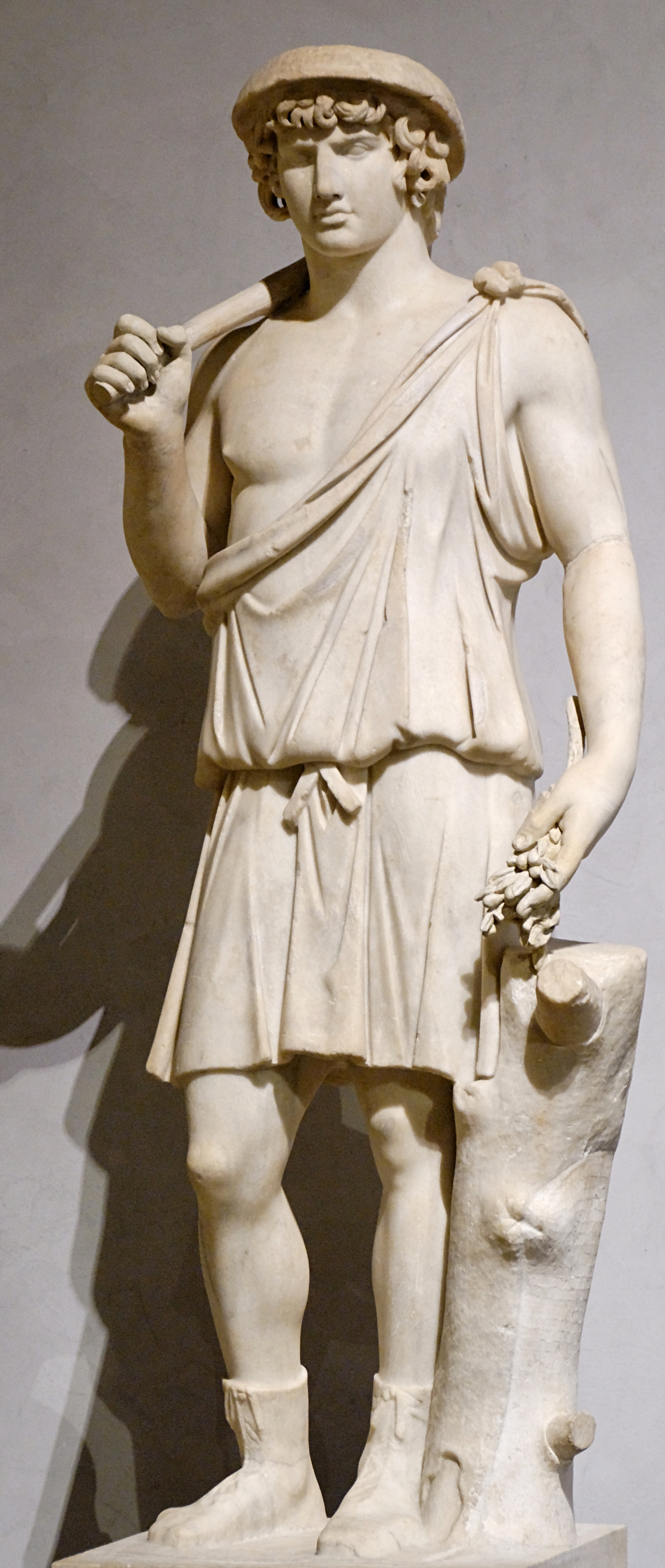 Antinous as Aristaeus, god of the gardens. Bought in Rome in the 17th century by Cardinal Richelieu for his collections.